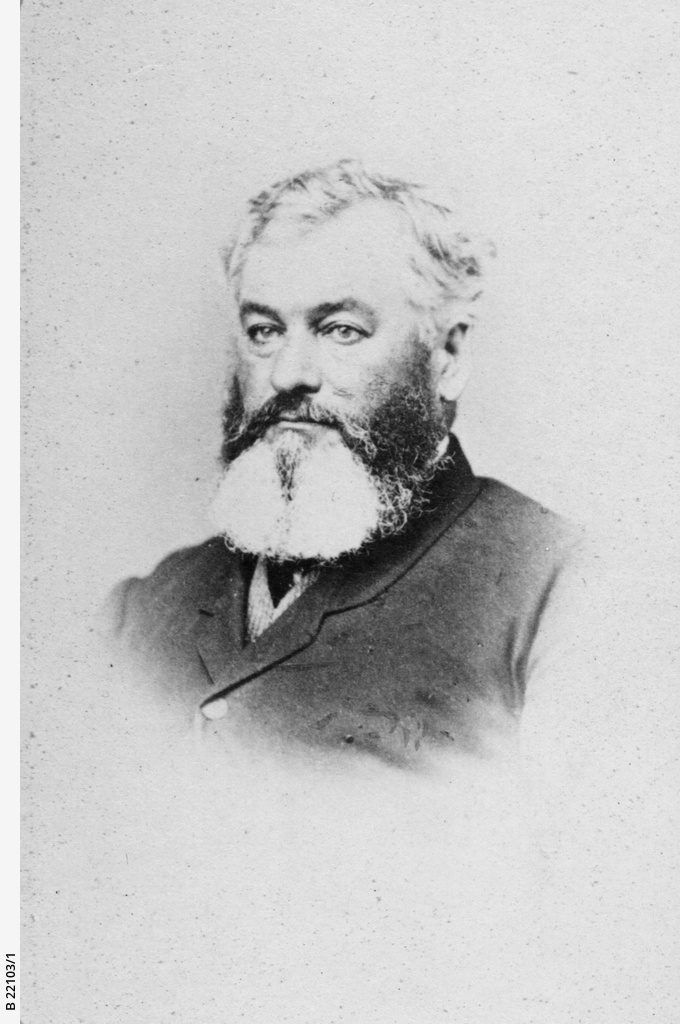 Image of John Baker, Australian politician and second Premier of South Australia.